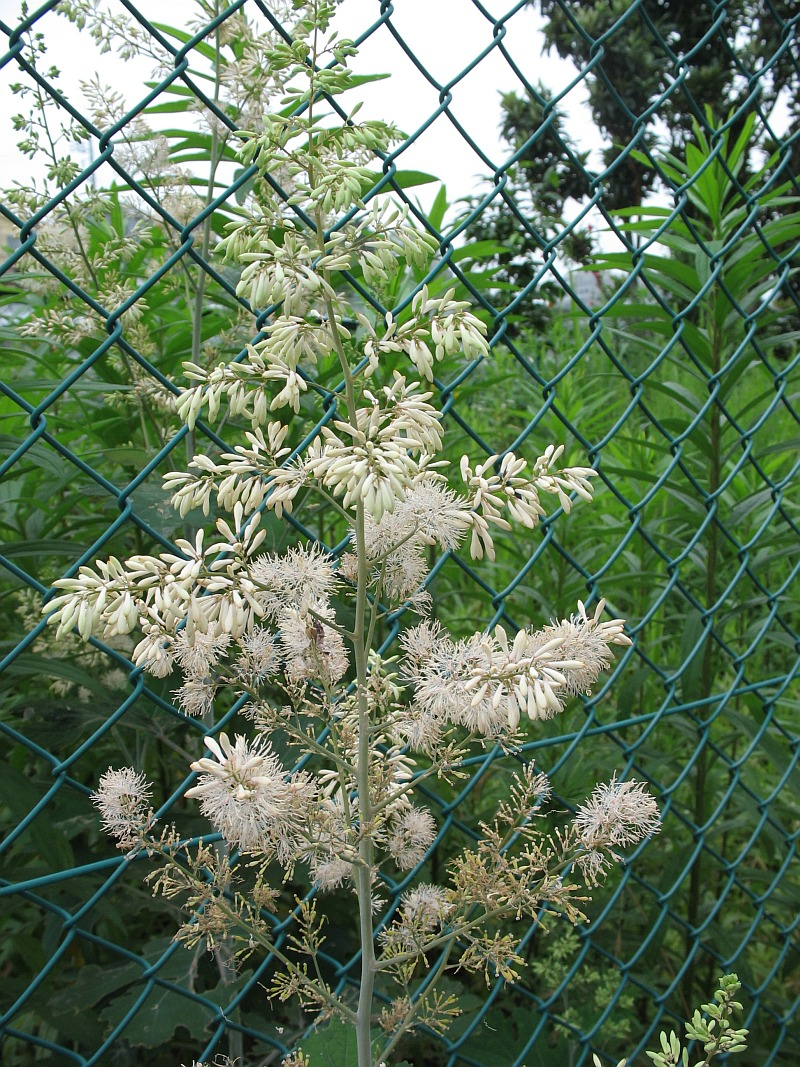 Photograph of Macleaya cordata, taken in Tama city, Tokyo, Japan.